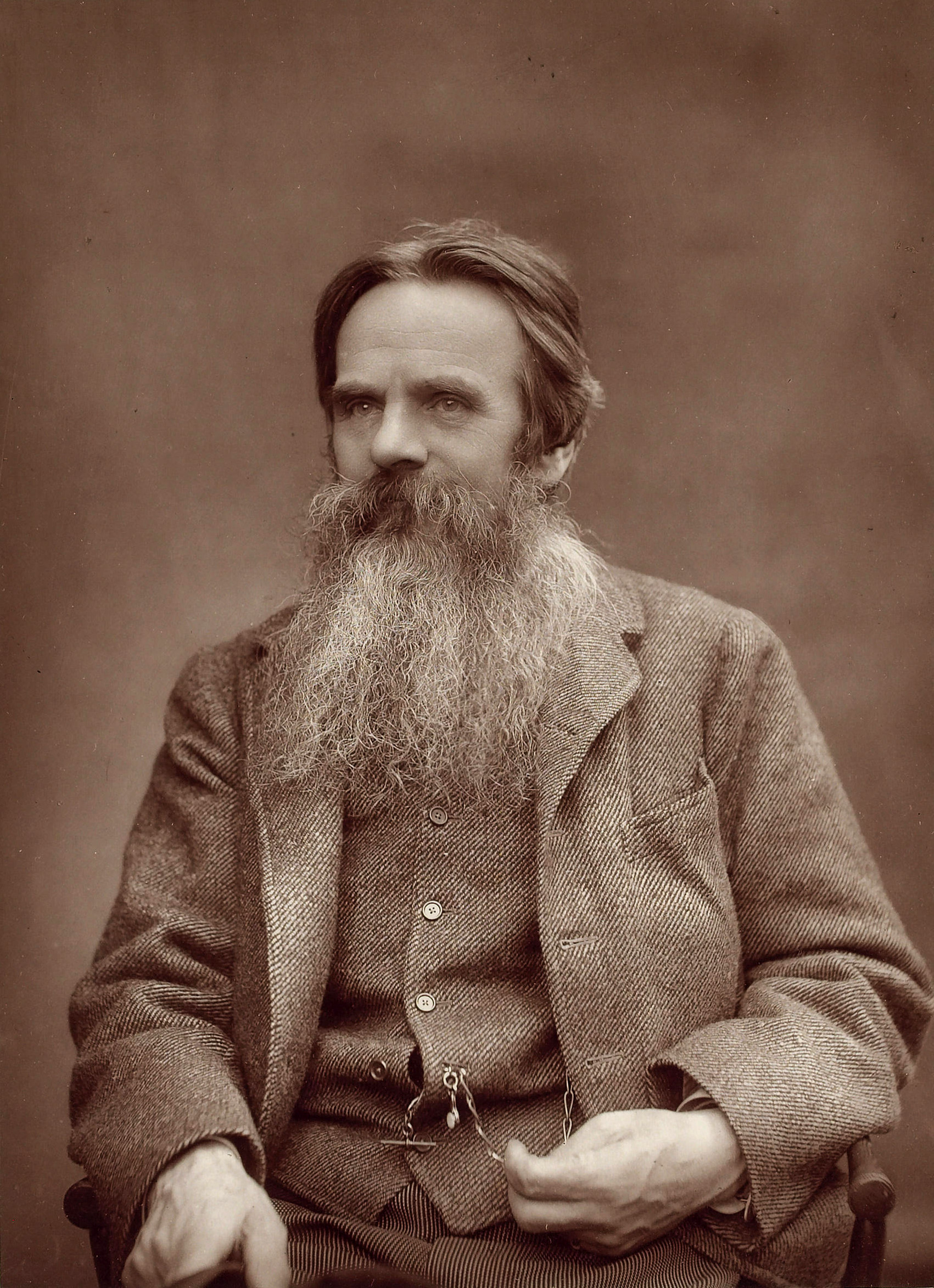 Portrait of Holman Hunt (1827-1910), artist, Woodburytype, 9.7 x 7.1 in (247 mm x 180 mm) )